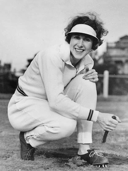 Australian athlete Eileen Wearne in 1937